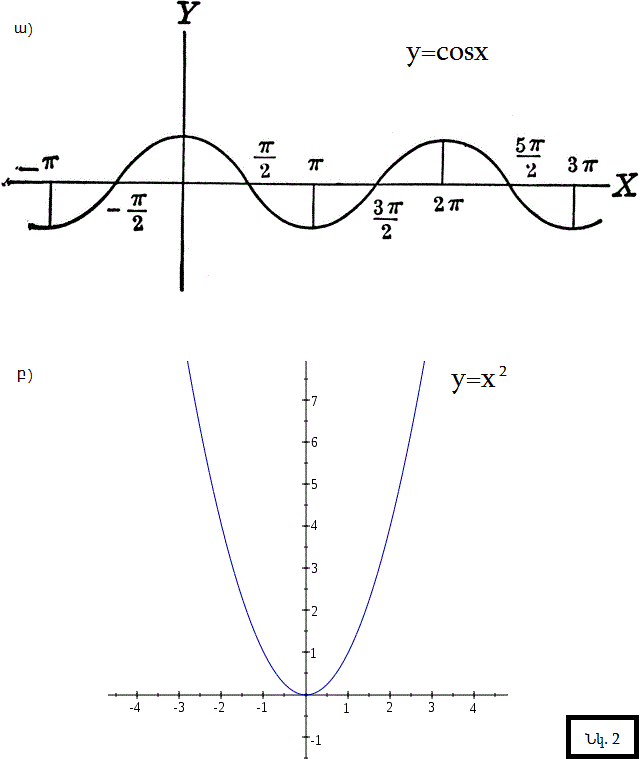 function